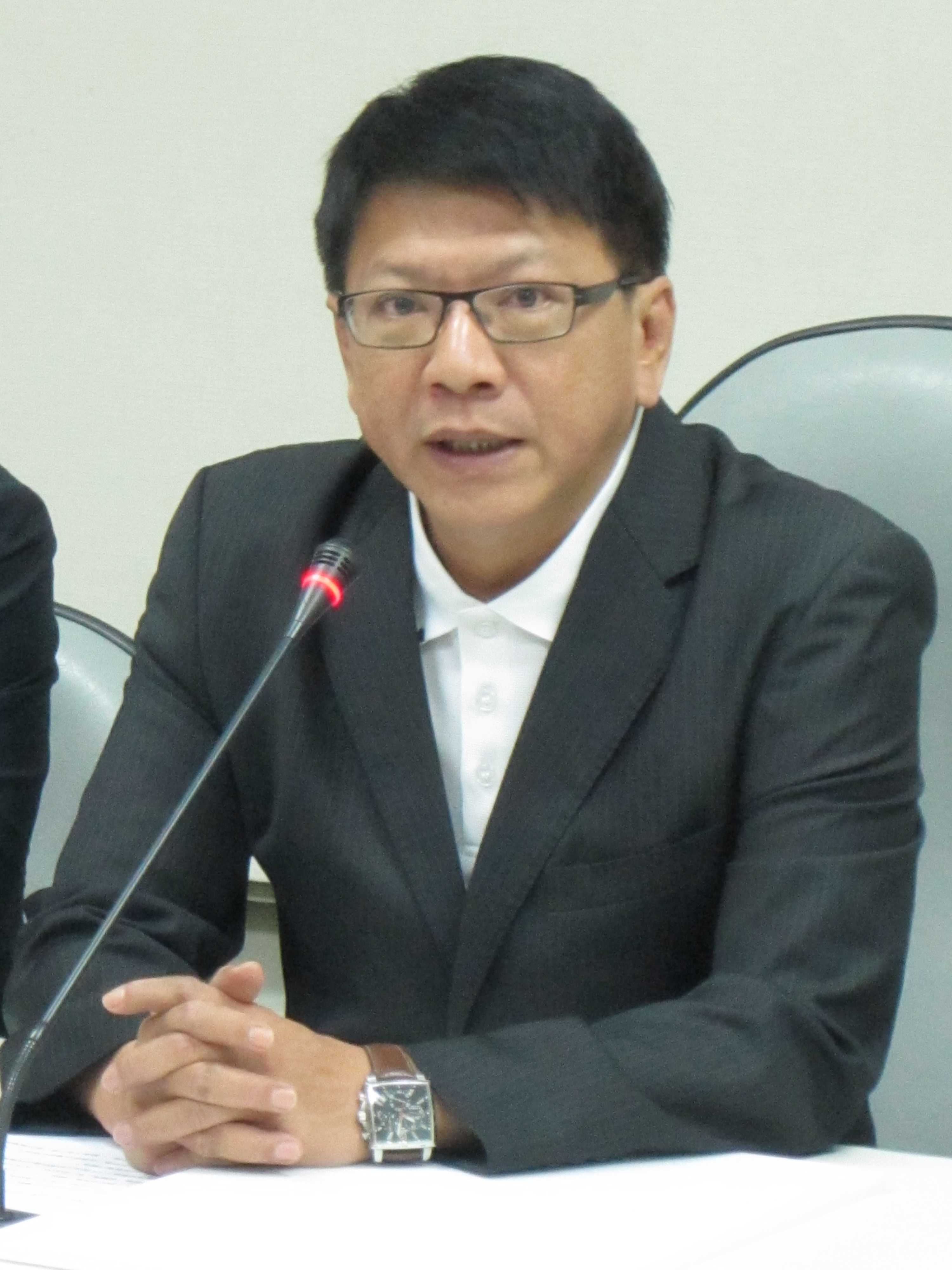 Pan Men-an